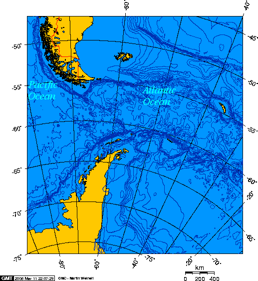 Drake Passage - Lambert Azimuthal projection.